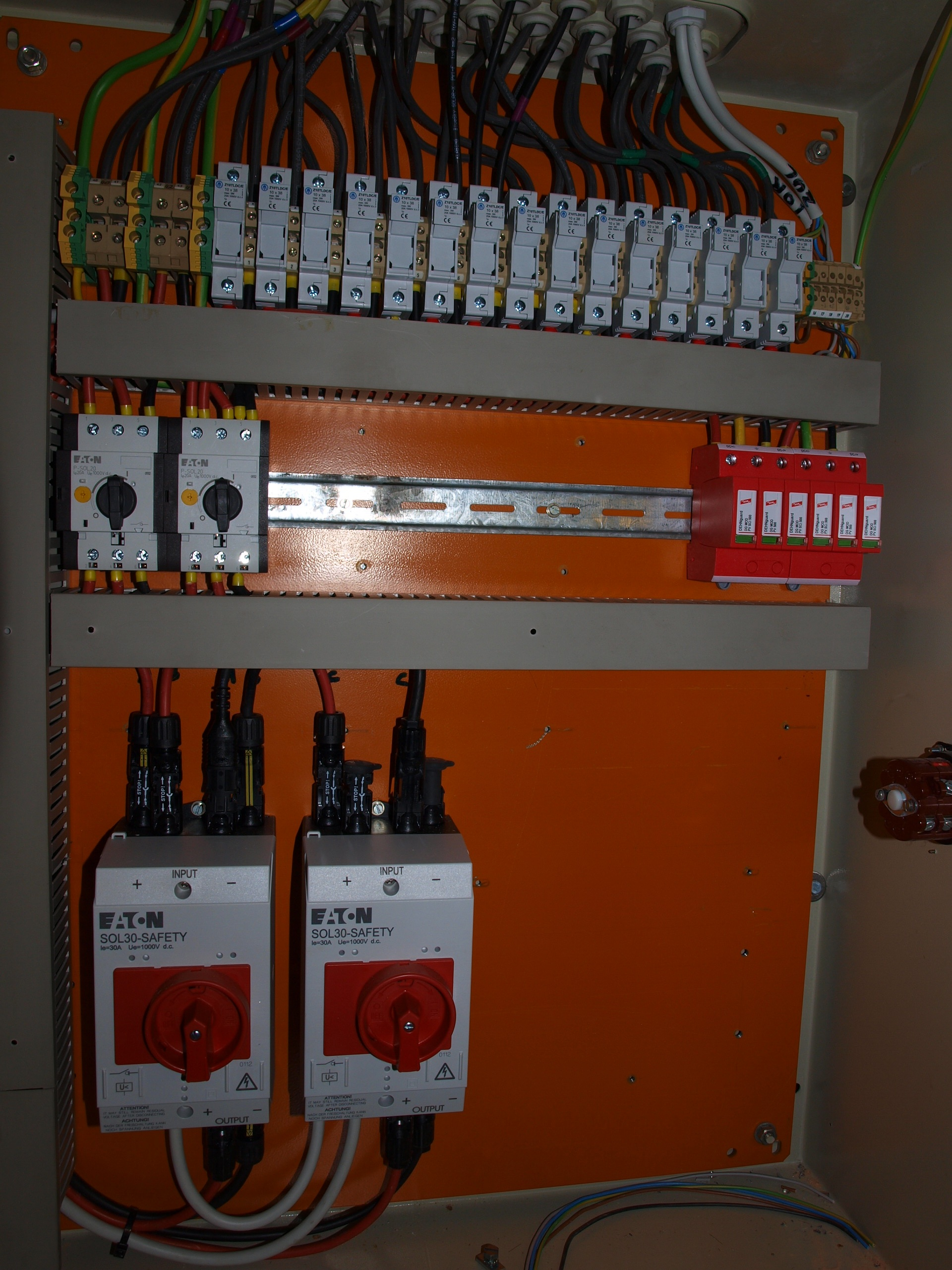 Fireman's Switch EATON PV-SOL 30 and surge protection for the PV system, Montfortstraße 19 in Dornbirn, Vorarlberg, Austria